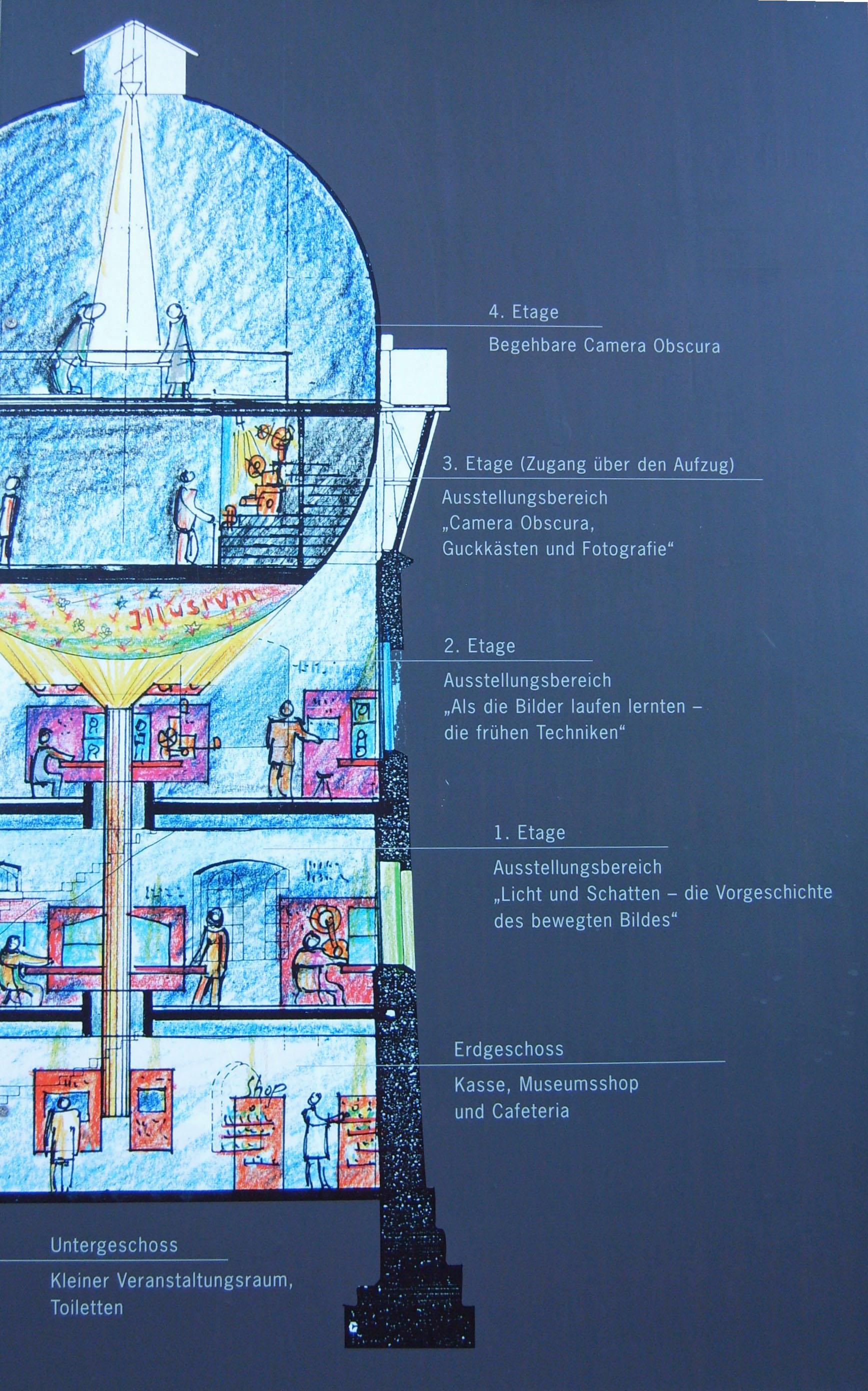 Camera obscura at Museum zur Vorgeschichte des Films